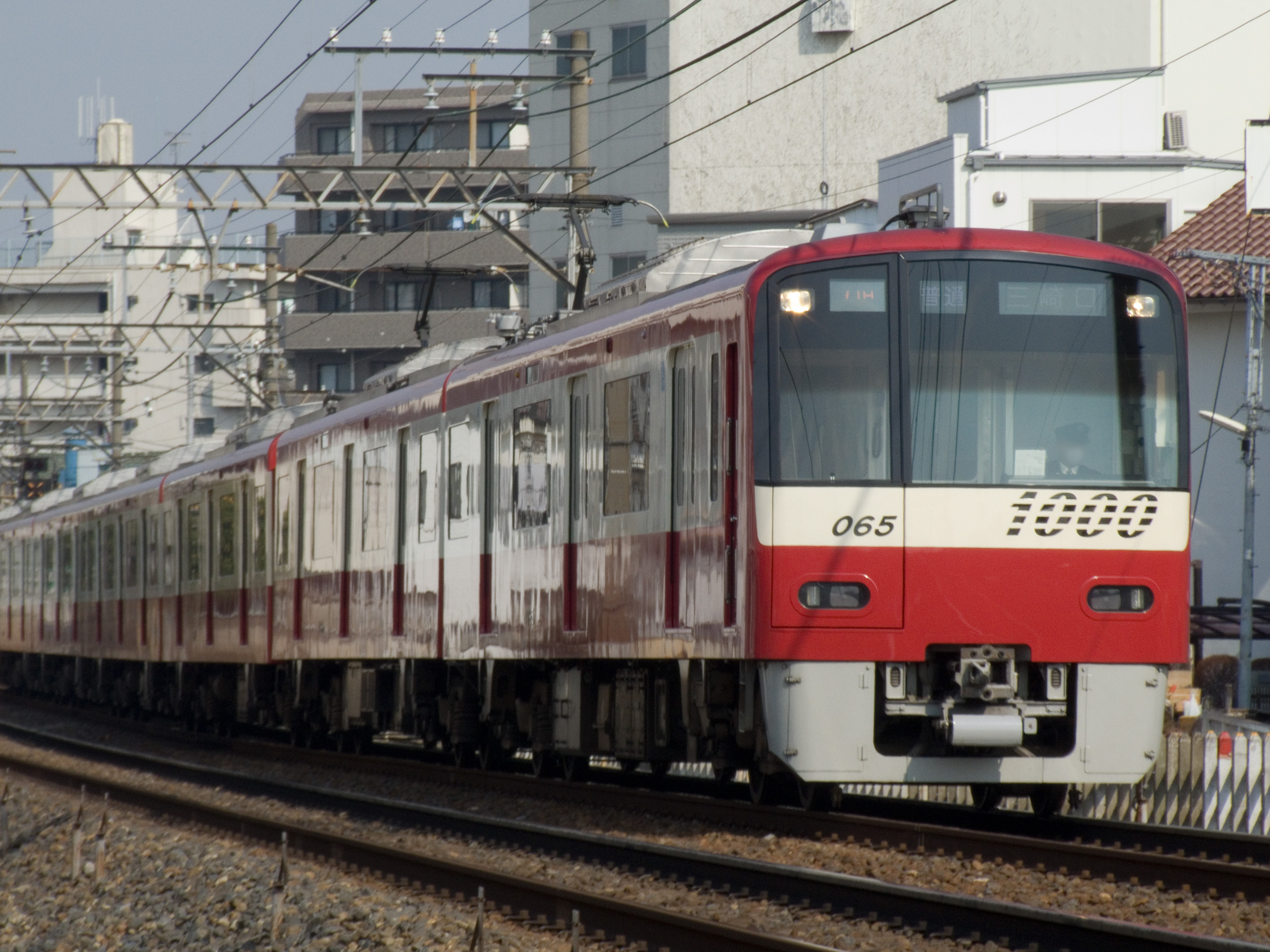 Keikyū N1000 series 8-car EMU set 1065(the train's number on this pic is 1065) on the Keisei Oshiage Line between Keisei-Tateishi and Yotsugi stations in Katsushika city, Tokyo, Japan